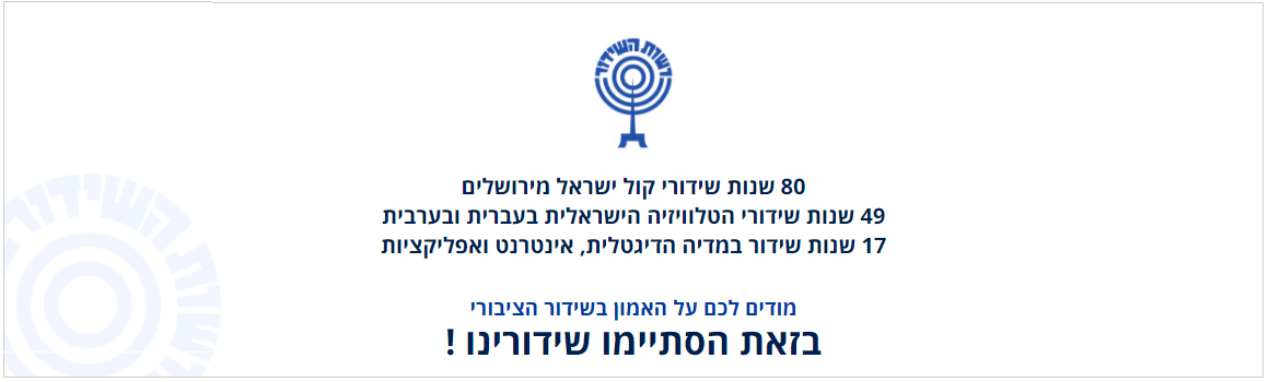 תצלום מסך מאתר רשות השידור